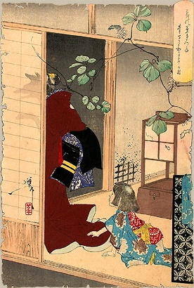 "The Fox-woman Kuzunoha leaving Her Child" from the Thirty-six Ghosts